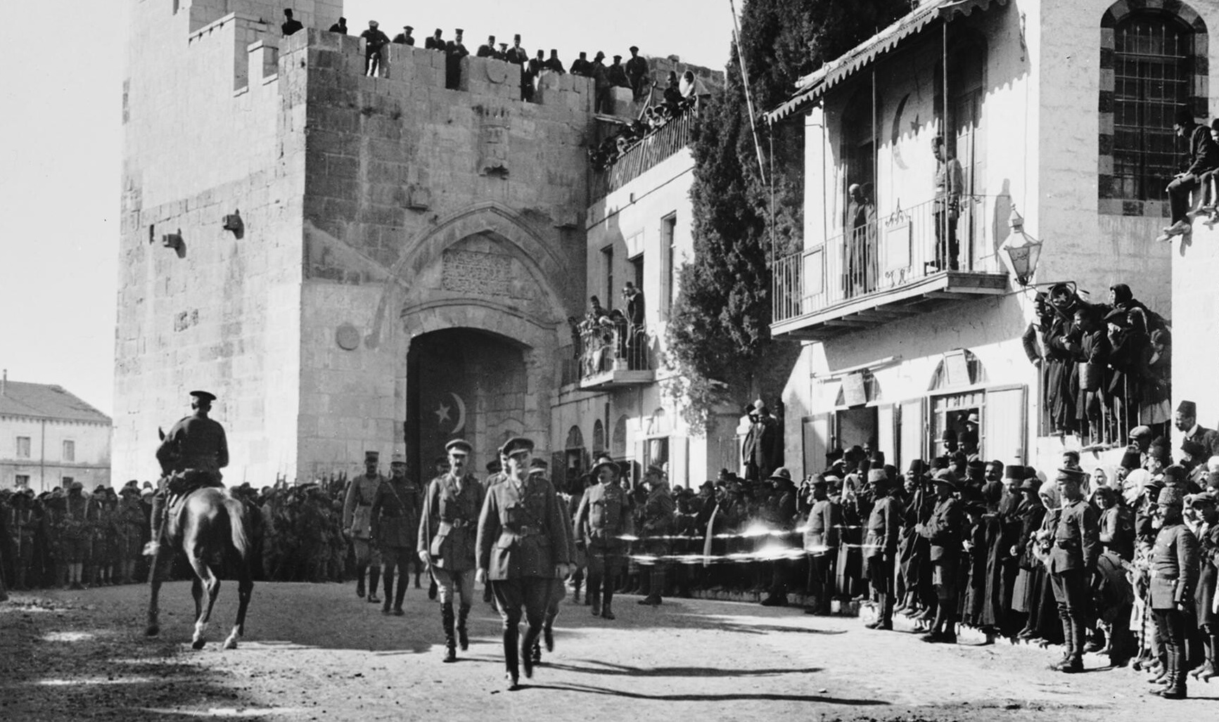 Famous public photo of dismounted General Sir Edmund Allenby entering the Holy City of Jerusalem on foot 1917 to show respect for holy place.